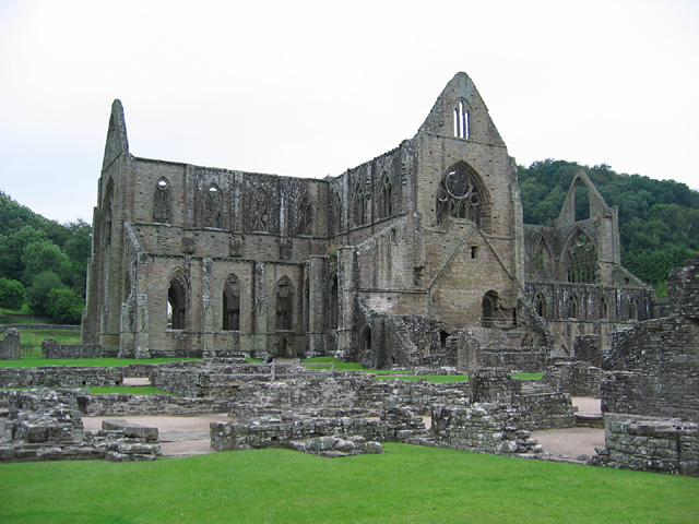 Tintern Abbey in the Wye Valley, Wales